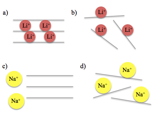 This image shows how sodium and lithium ions fit into a graphite lattice (left) vs a graphene lattice (right) during intercalation.